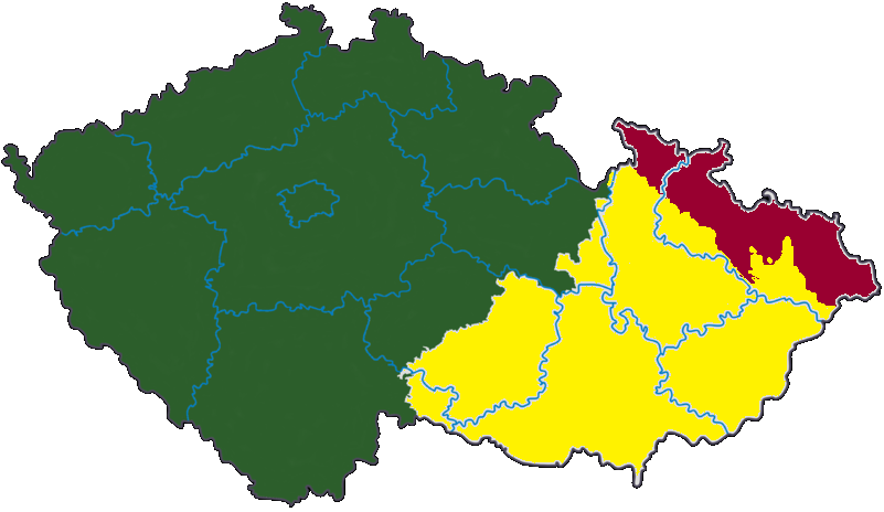 Map of Bohemia (green), Moravia (yellow) and Silezia (red) on the map of present Czech Republic. Created by editing map: Image:CZ-cleneni-Cechy-wl.png